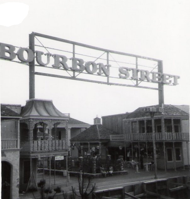 1964 New York World's Fair